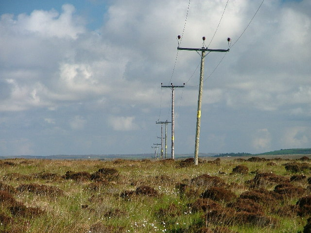 Electricity Poles. Going straight as a dye across the Cnocan Bhramabais towards the Machrie Hotel.